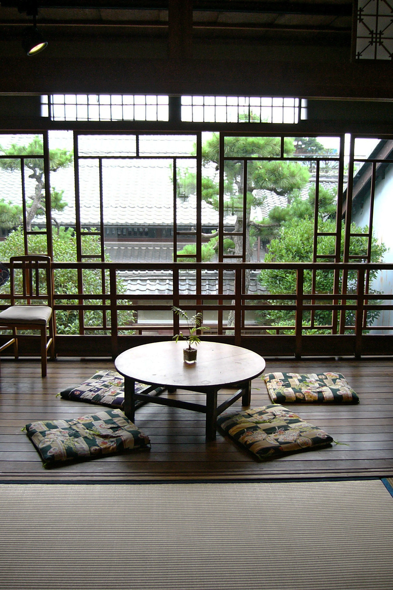 Borderless Art Museum NO-MA, Omihachiman, Shiga prefecture, Japan